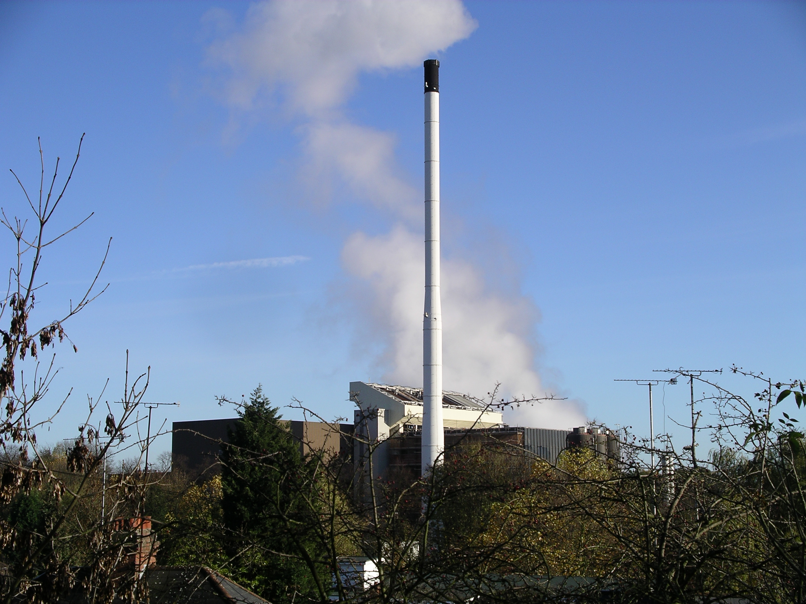 Photo taken on 19 November 2006 of the incineration unit, Coventry, England.